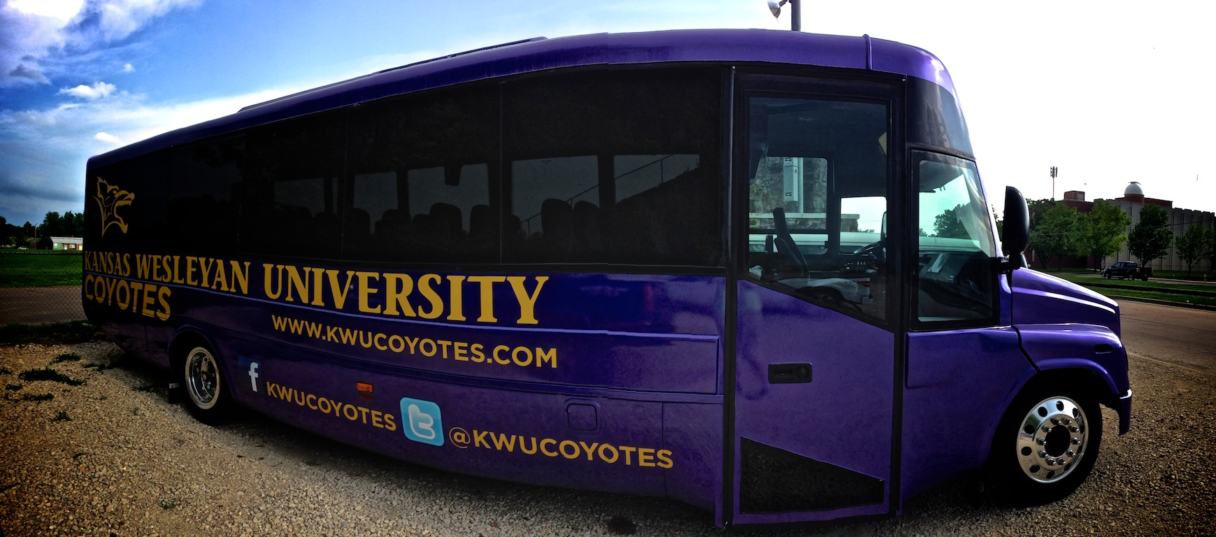 Athletics bus for the Coyotes at Kansas Wesleyan University in Salina, Kansas